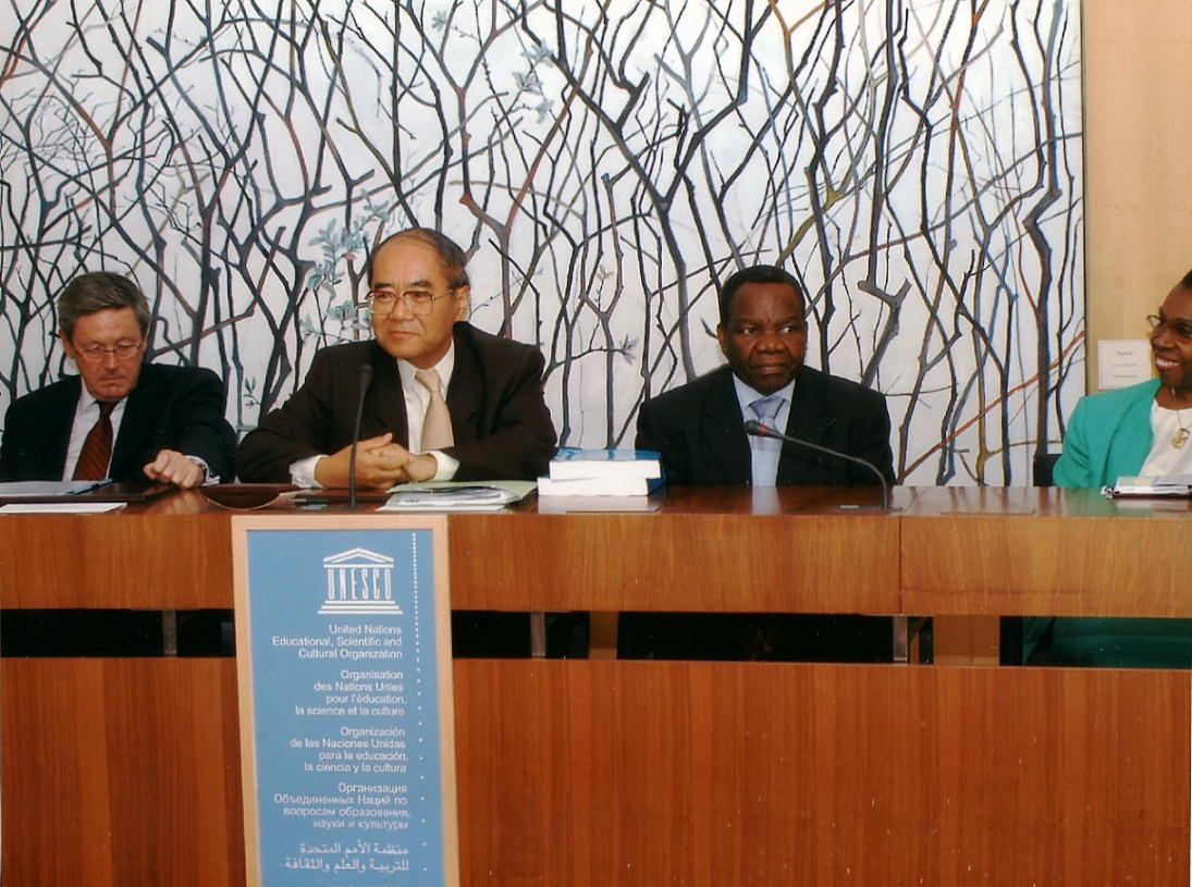 Signing of the agreement to establish a chair in Political Economy of Education at the University of Nottingham, UK: Left to Right: Sir Colin Campbell, Vice-Chancellor of the University of Nottingham, UK; Koichiro Matsuura, Director General of UNESCO; and Michael Omolewa, President of the General Conference of UNESCO: 6 June 2005.